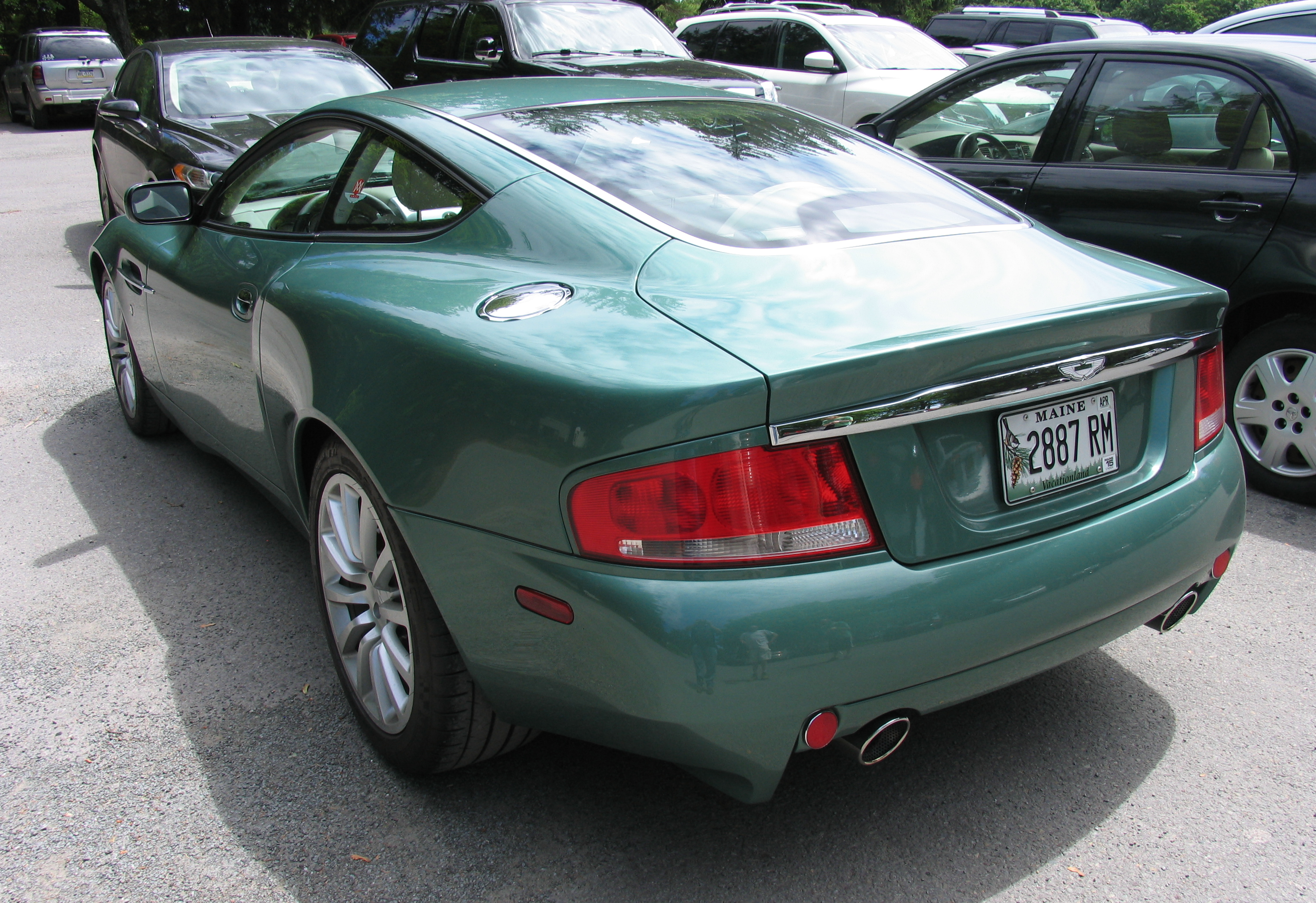 2002 Aston Martin V12 Vanquish in AM Racing Green, chassis number SCFAC23312B500447. Sold new in California, then to Maine in 2010, and on to only its third owner (NY?) in May 2017 for $65,500, with 22.5K miles on the odometer.